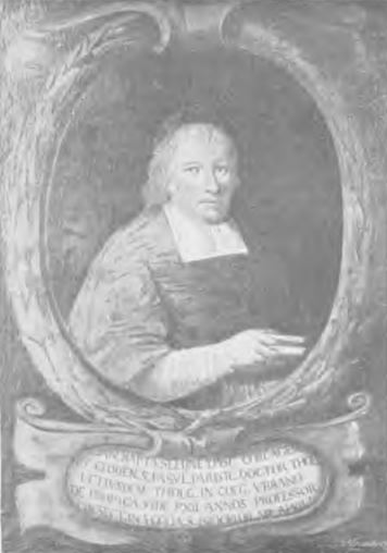 Dr. John Baptist Sleyne, Bishop of Cork and Cloyne 1692-1712